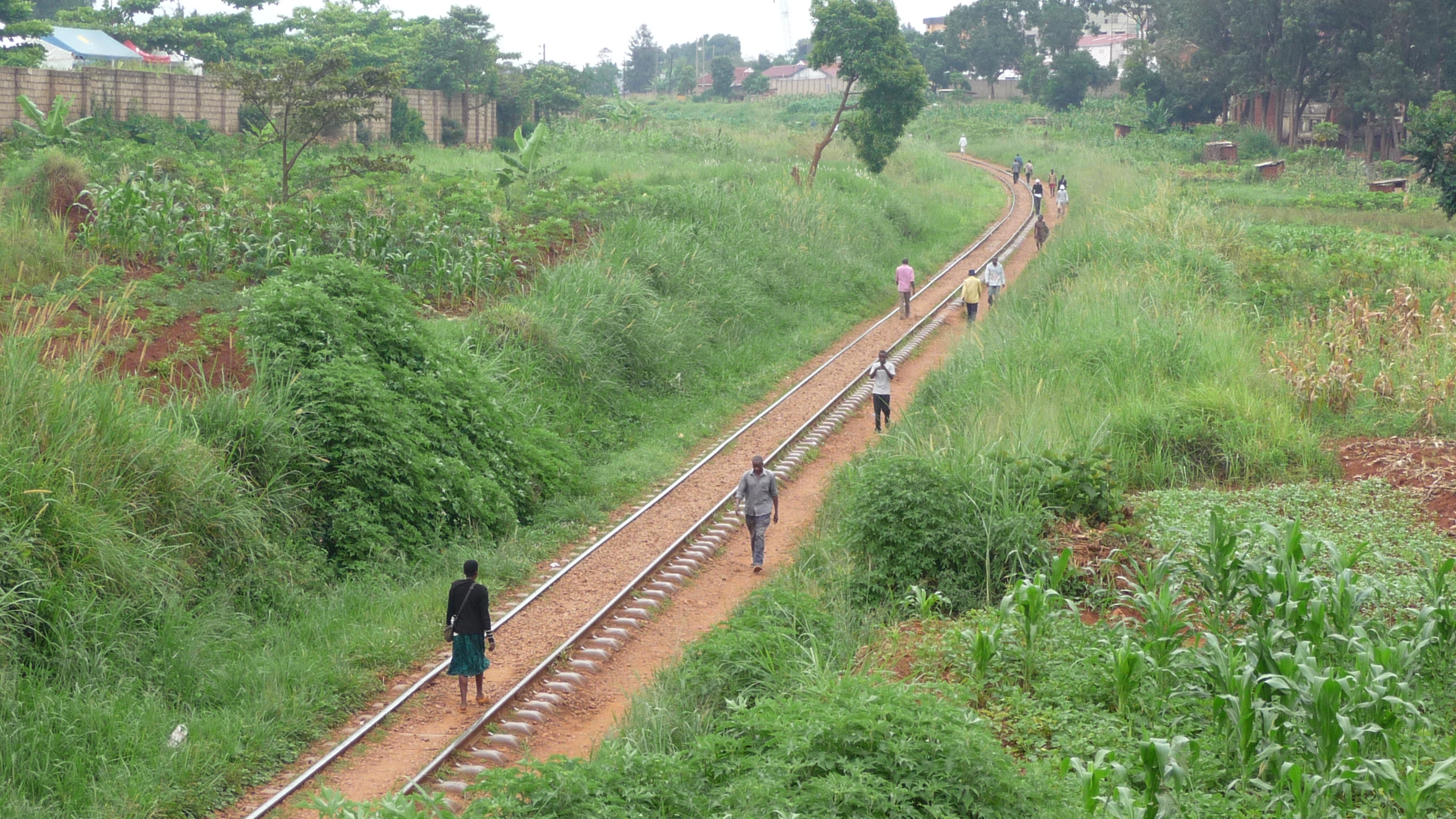 This is Kampala's Railway network. It is so effective it doesnt even need trains.